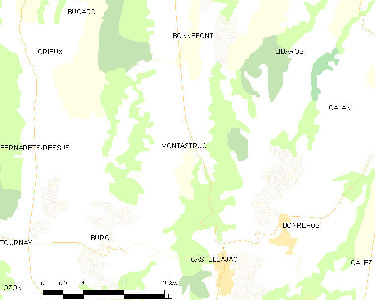 Map of French municipality